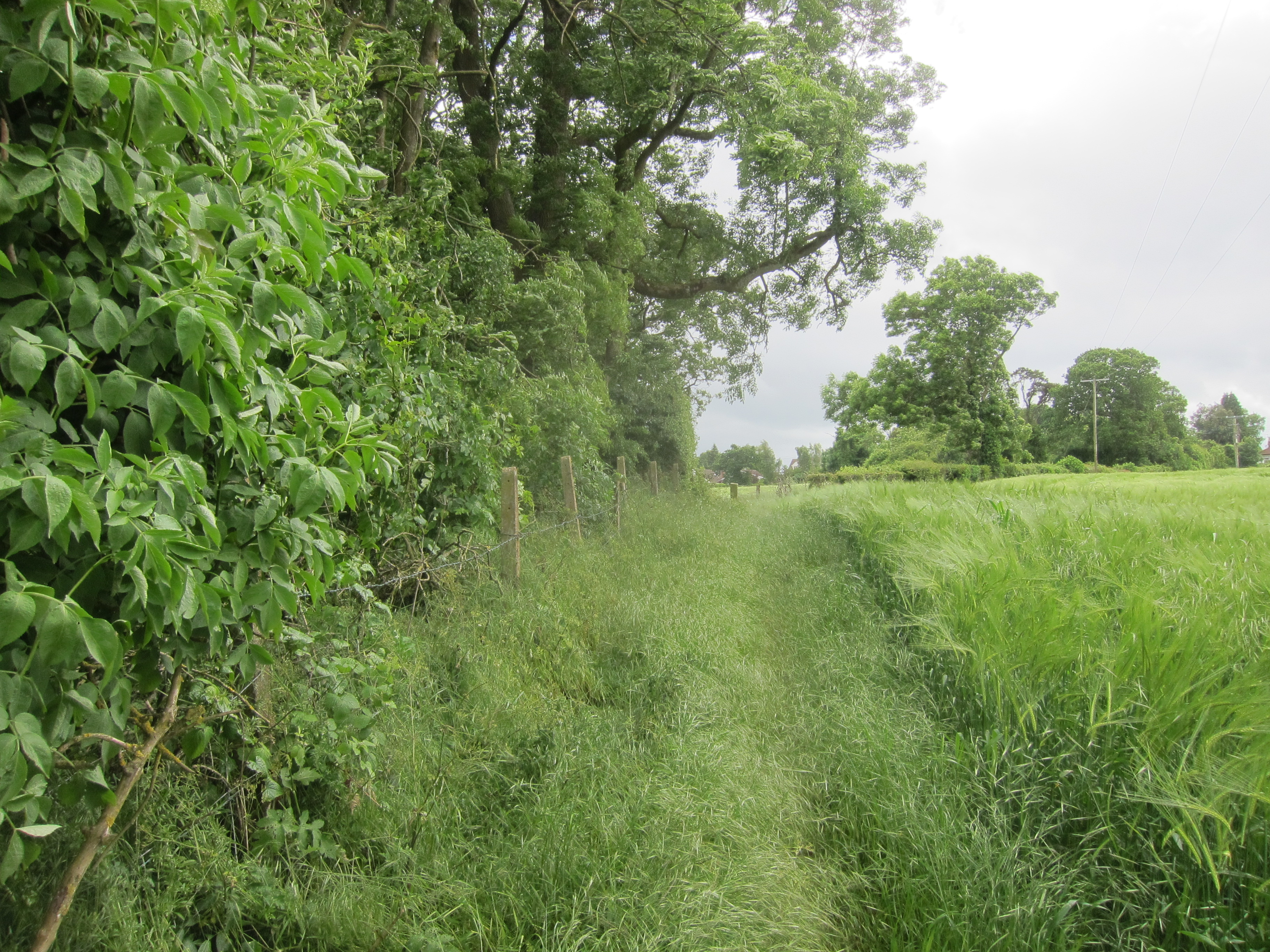 Field edge boundary. Looking south. Woods of Wraxall Camp to the left.